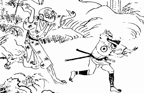 "Monster that extracts bone from person " from the Shokoku Hyakumonogatari